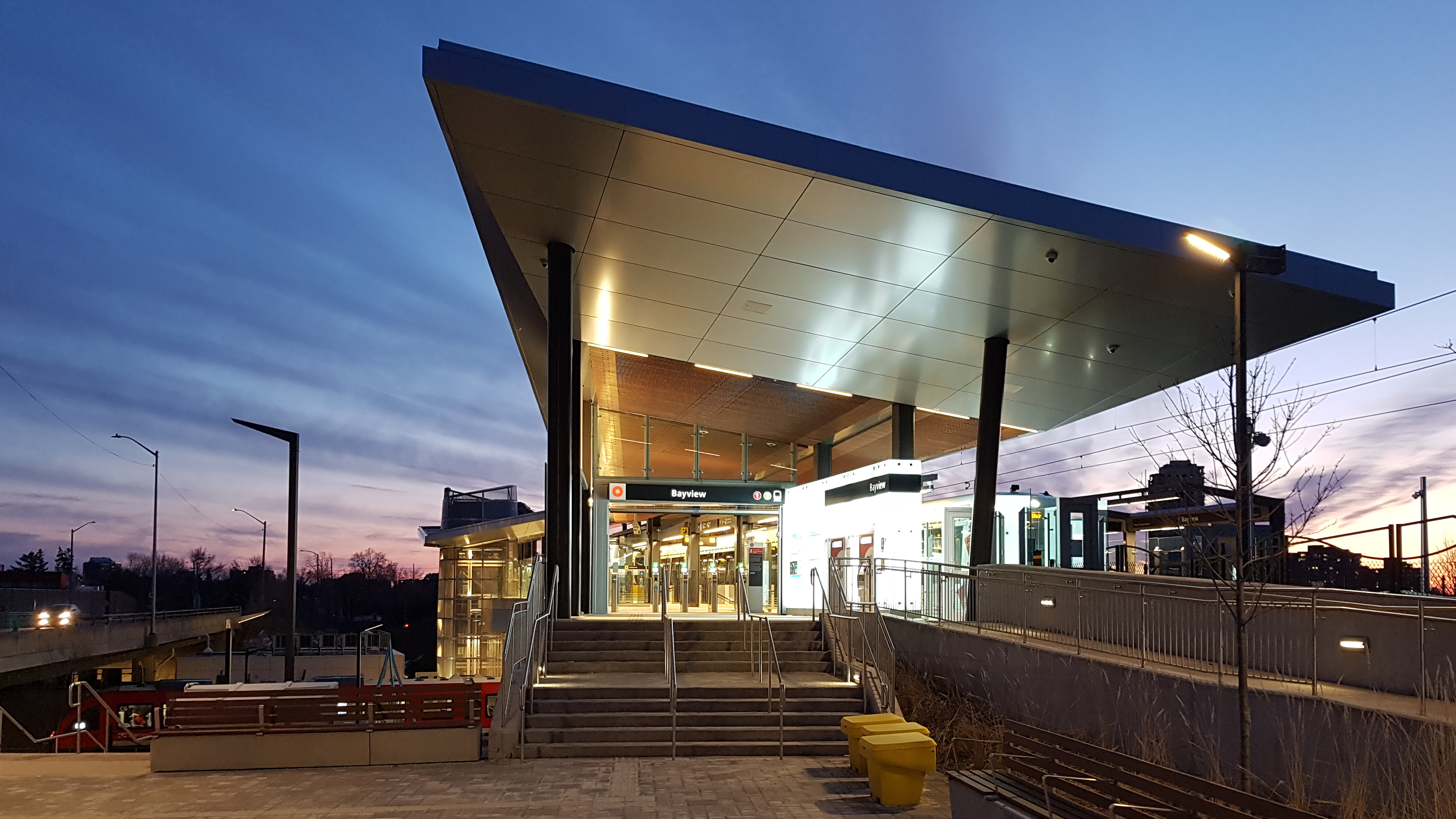 This is the upper level entrance for the O-Train Bayview Station.